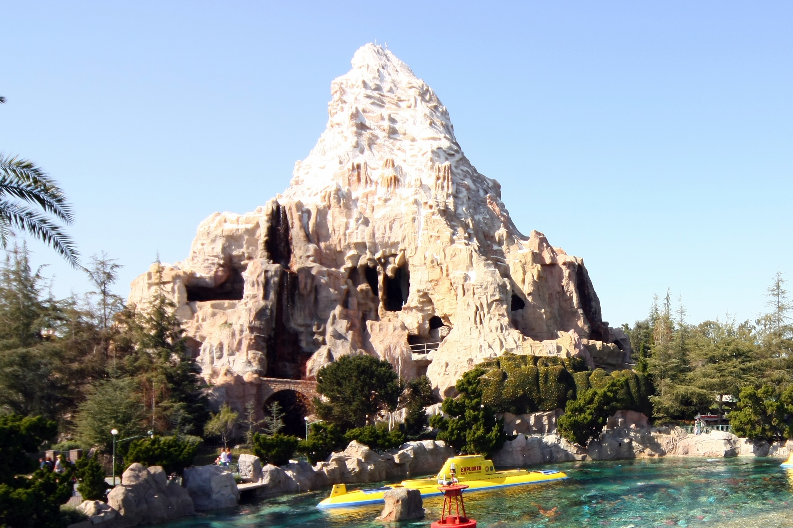 The Matterhorn at Disneyland Park as seen from the Monorail station platform.